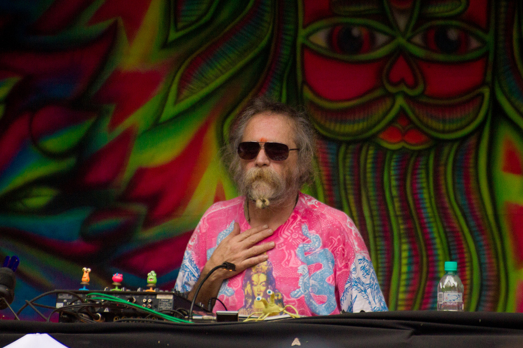 Goa Gil set in Moscow 24.07.2010